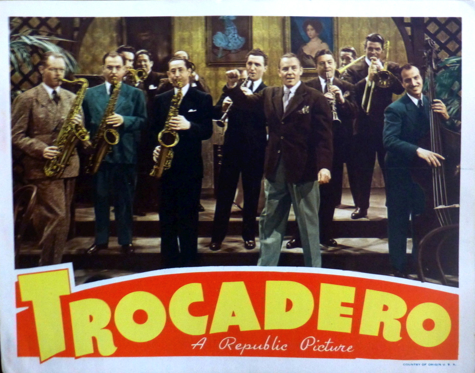 Lobby card for the 1944 film, Trocadero. Pictured are Bob Chester and his Orchestra. The item has no copyright markings on it as can be seen in the links above. At bottom right is Country of Origin USA.